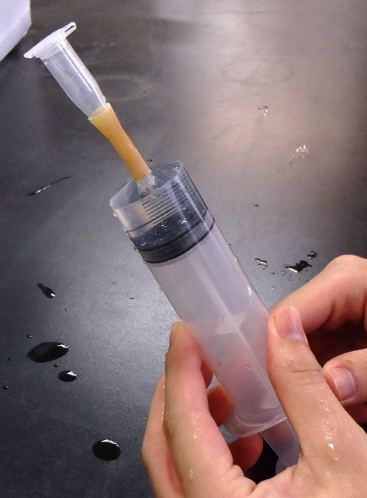 boiling hot water below 100 deg C under low pressure environment